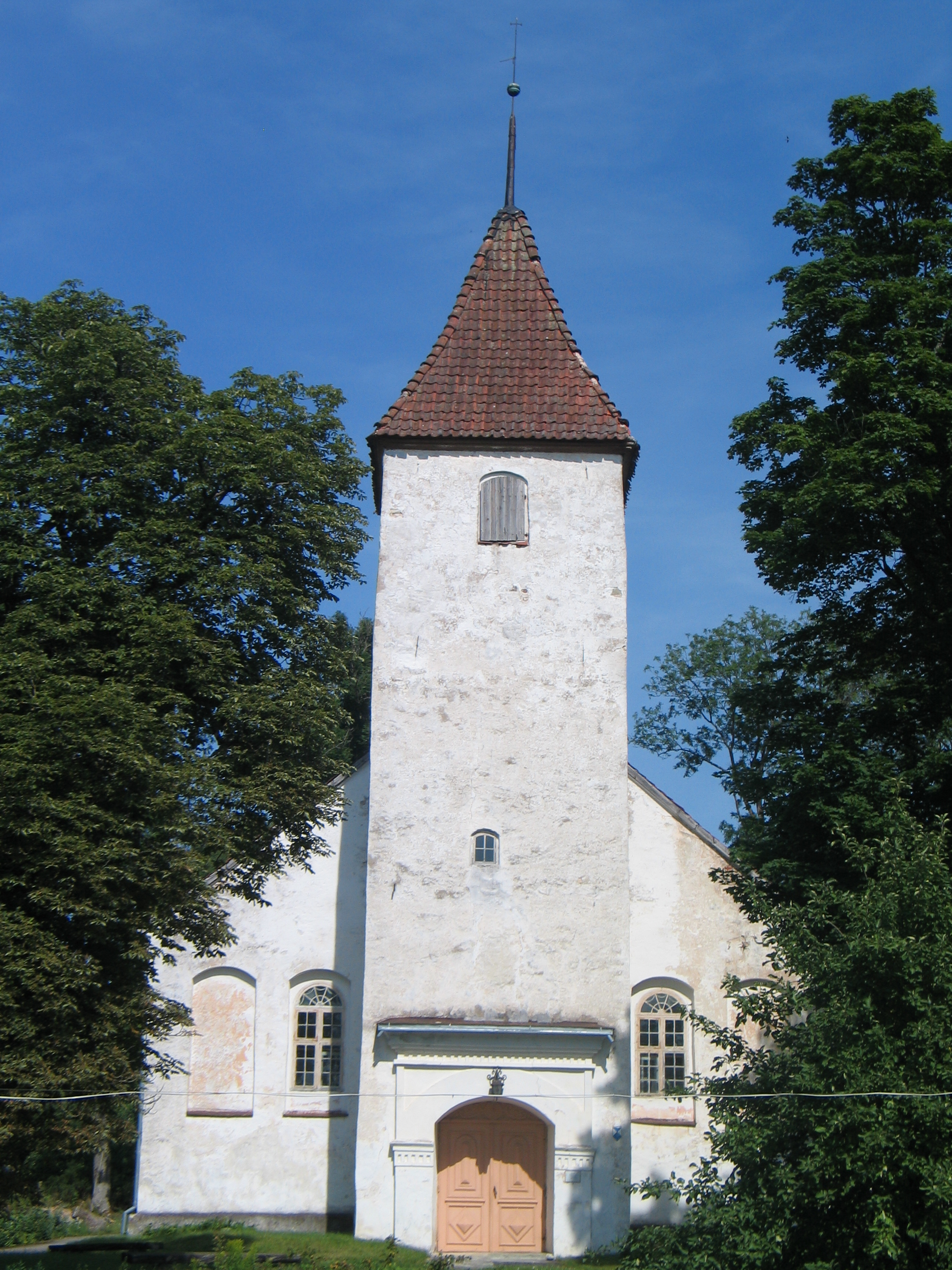 Lutheran church in Sabile